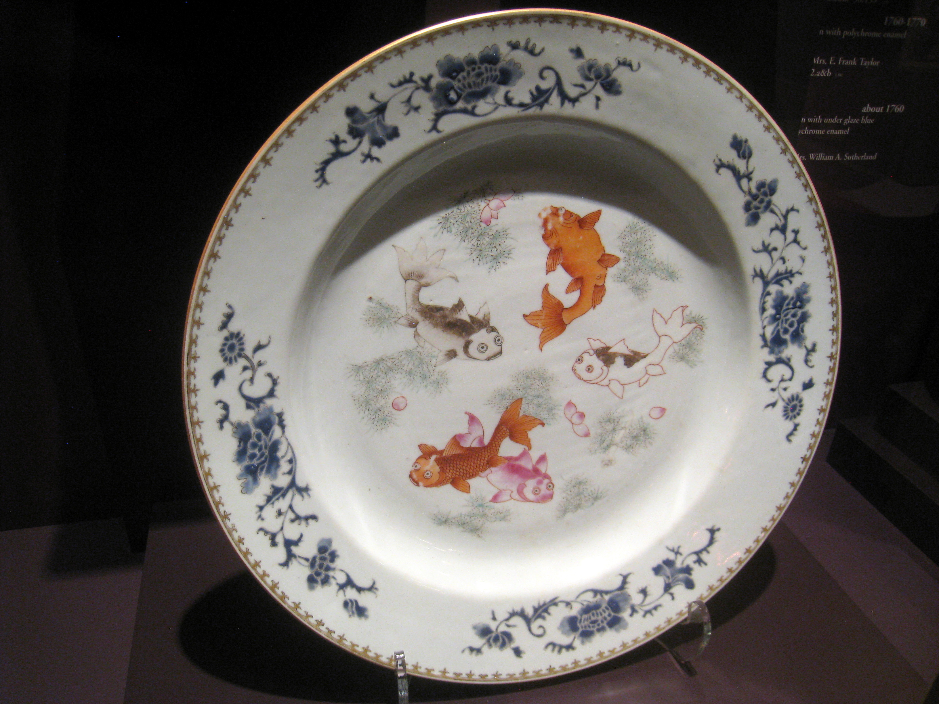 Plate, porcelain with underglaze blue and polychrome enamel; Chinese, circa 1760. Pottery exhibited in the DAR Museum, National Society Daughters of the American Revolution, 1776 D Street NW, Washington, DC, USA.